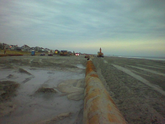 This is the restoration effort at Atlantic Beach, NC. There is 70-120 feet of beach that has been added.